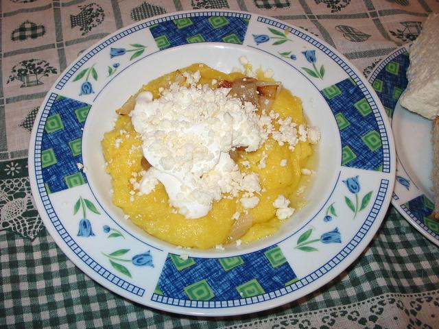 Ukrainian Kulesha (Mămăligă, maize porridge), with pork rind, bryndza and sour cream